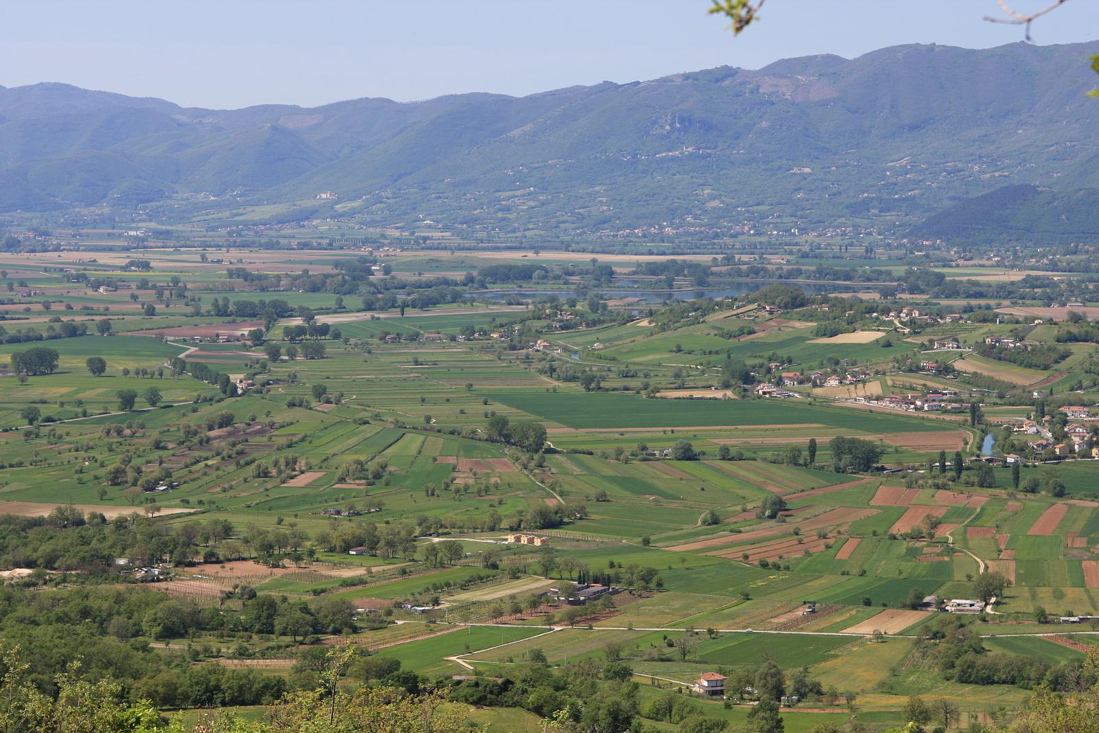 Plan of Rieti (Lazio, Italy)